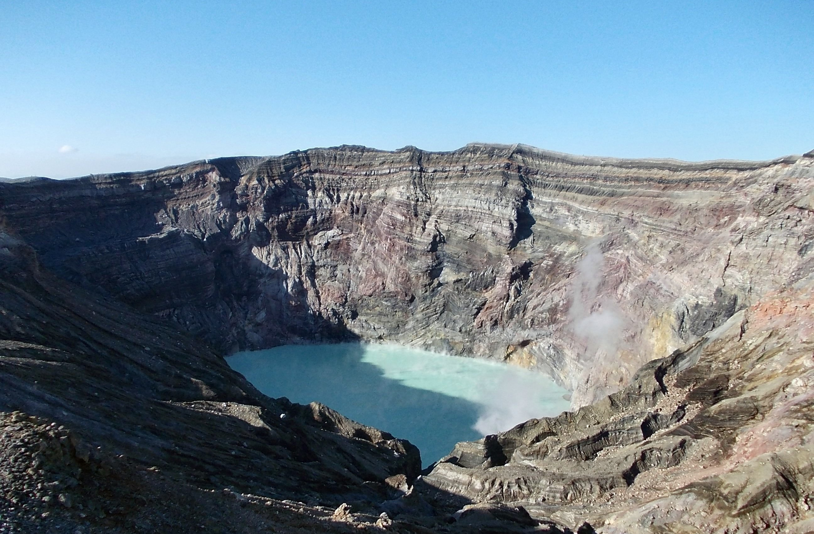 Crater of Mount Naka in the Aso Caldera, Kumamoto Prefecture, Japan